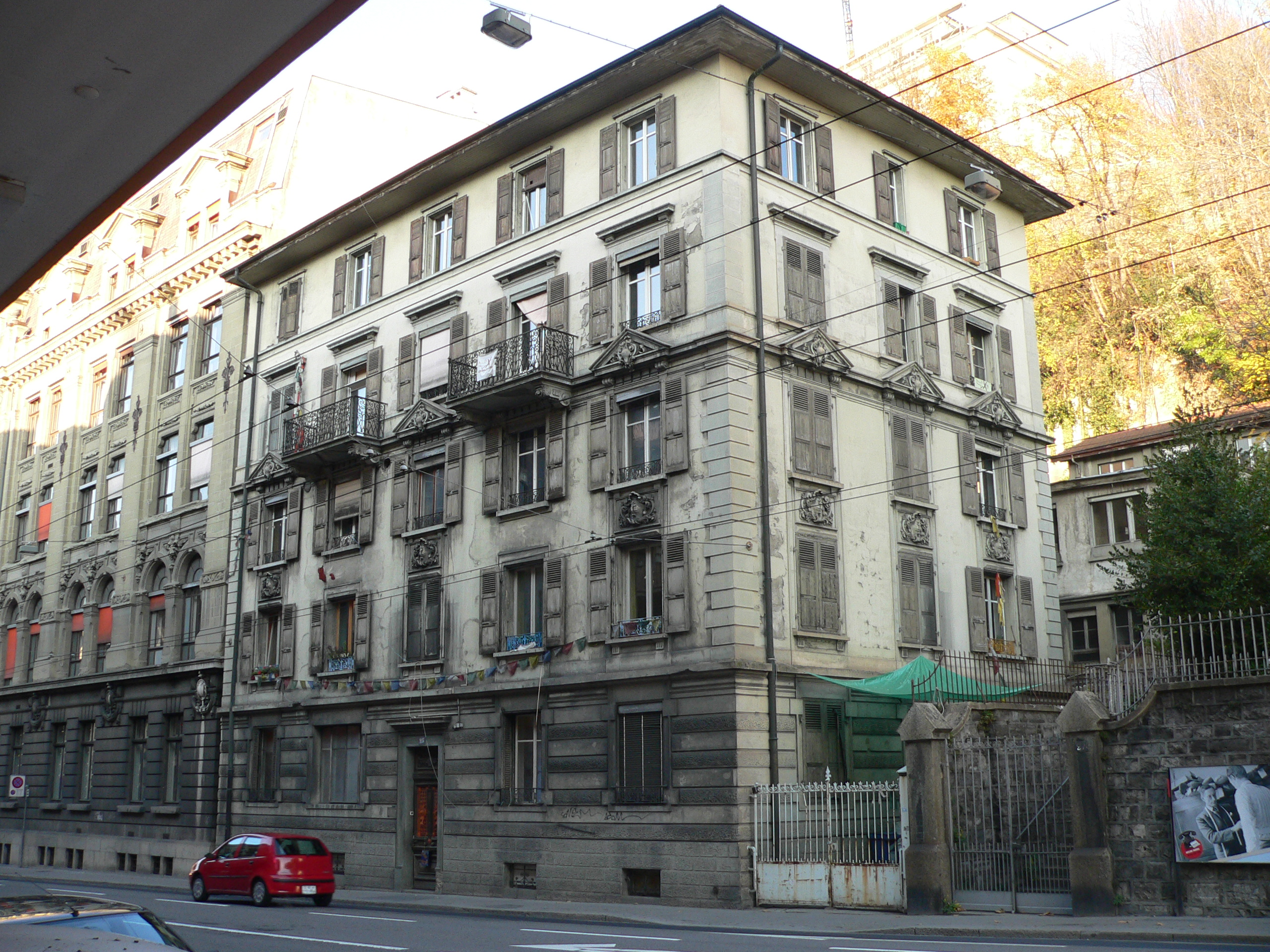 The Chien Rouge ("Red Dog"), an alternative artists' squat in Lausanne